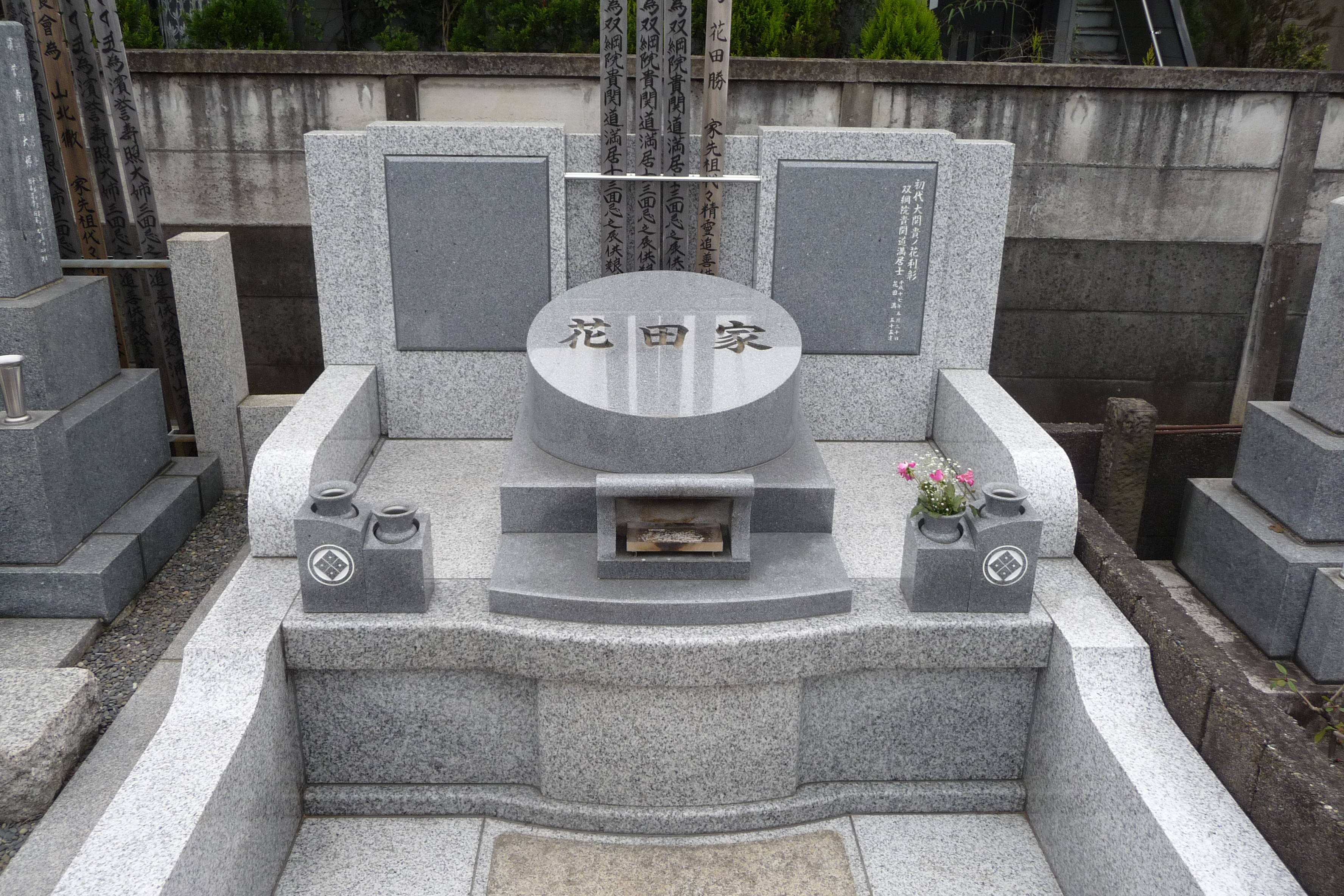 Grave of sumo wrestler, ex-Ōzeki Takanohana Kenshi.